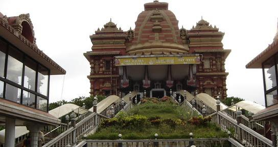 Photograph taken by self on 06/04/05